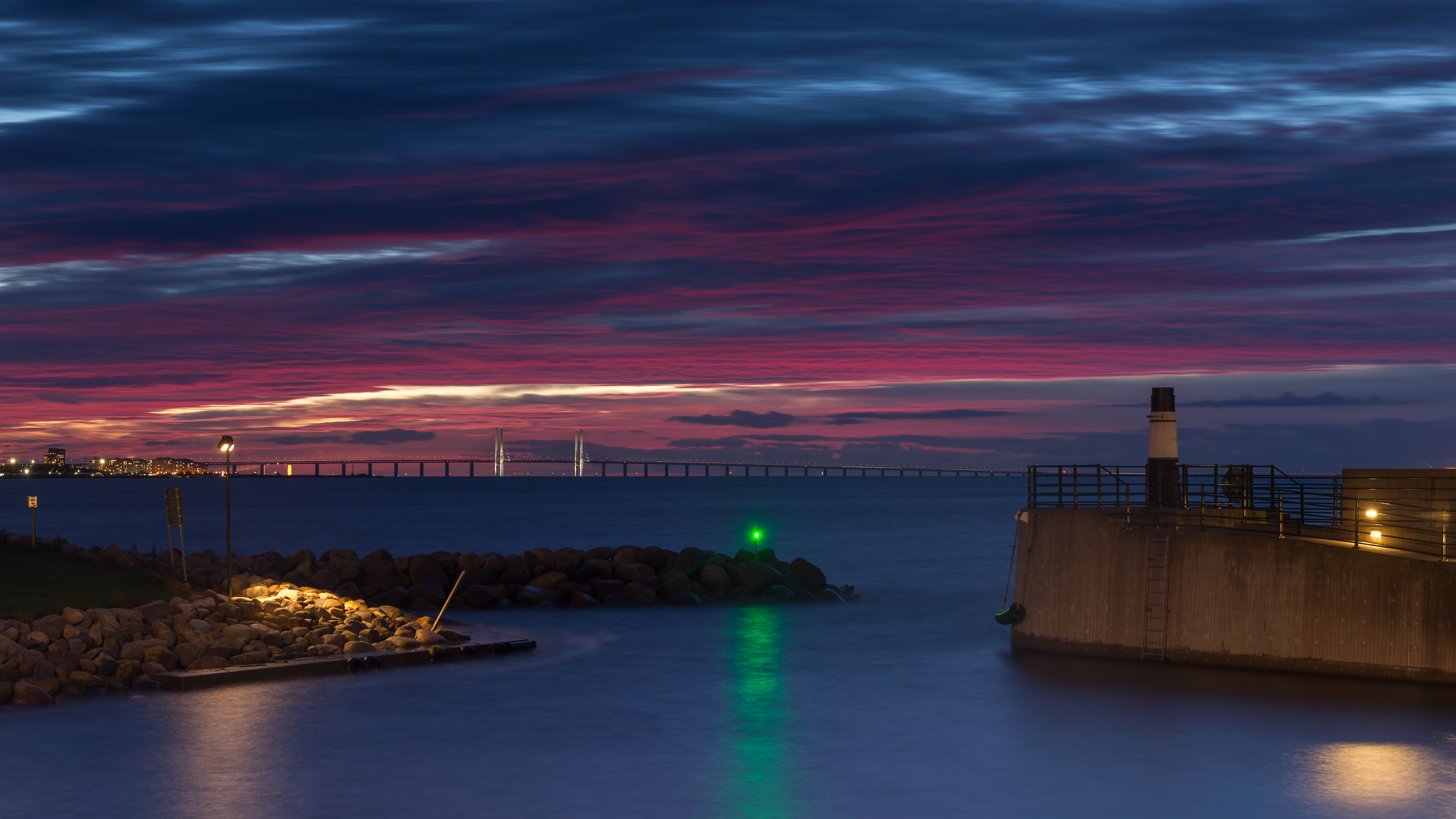 The Öresund bridge seen from Västra Hamnen, Malmö.